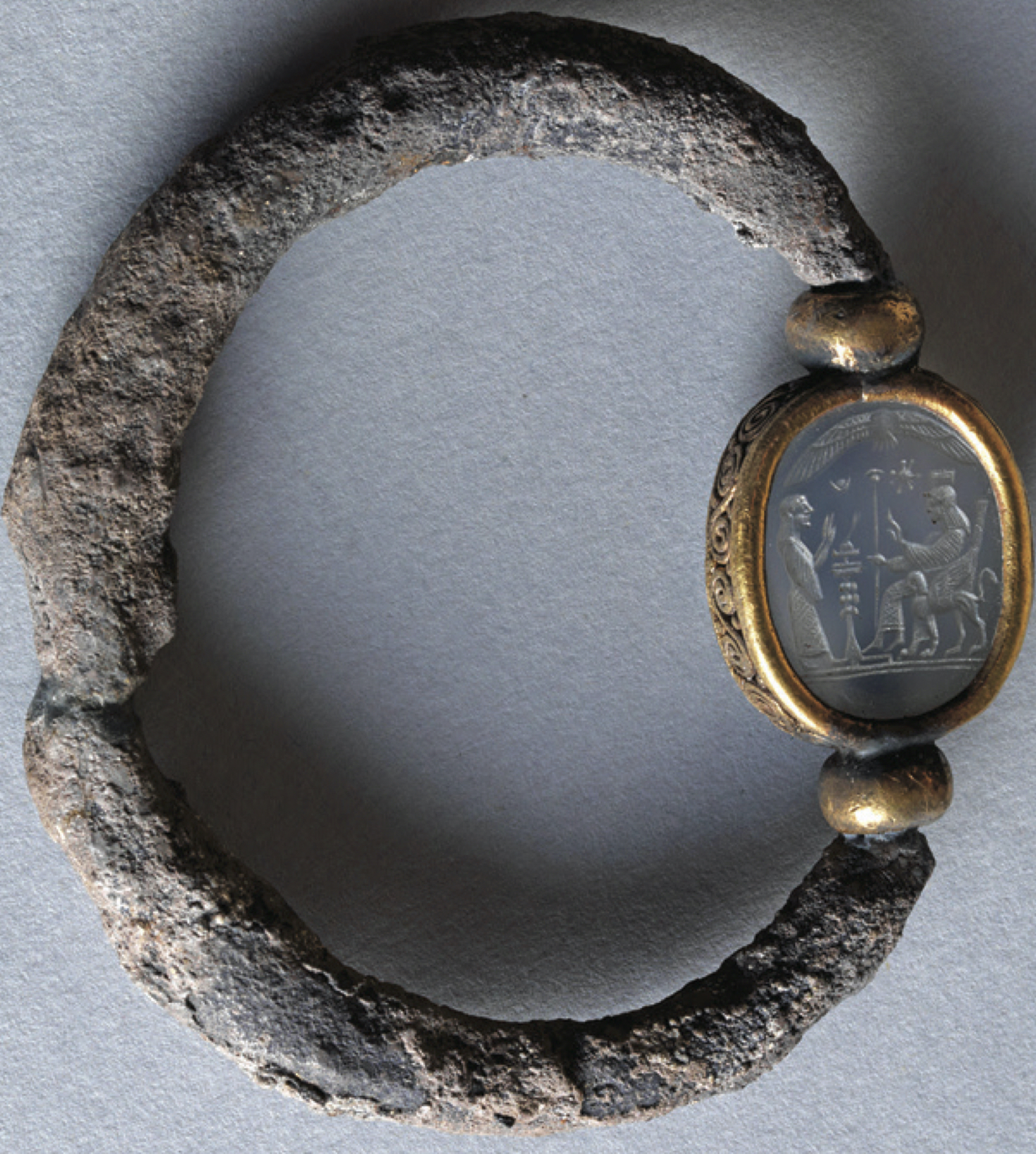 Phoenician Silver bracelet with amethyst intaglio stone in a gold bezel from Magharat Tabloun, Sidon in the Beirut National Museum 16157